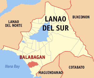 Map of the Lanao del Sur showing the location of Balabagan